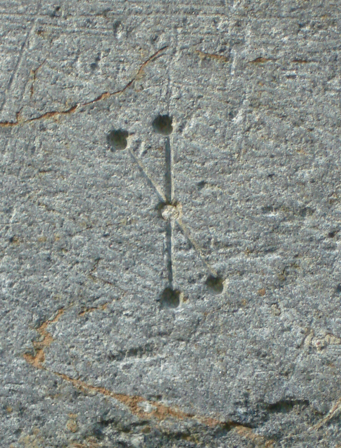 Stonemason's mark, 13th century, south wall of the chancel, Vår Frue Church (Church of Our Lady), Trondheim